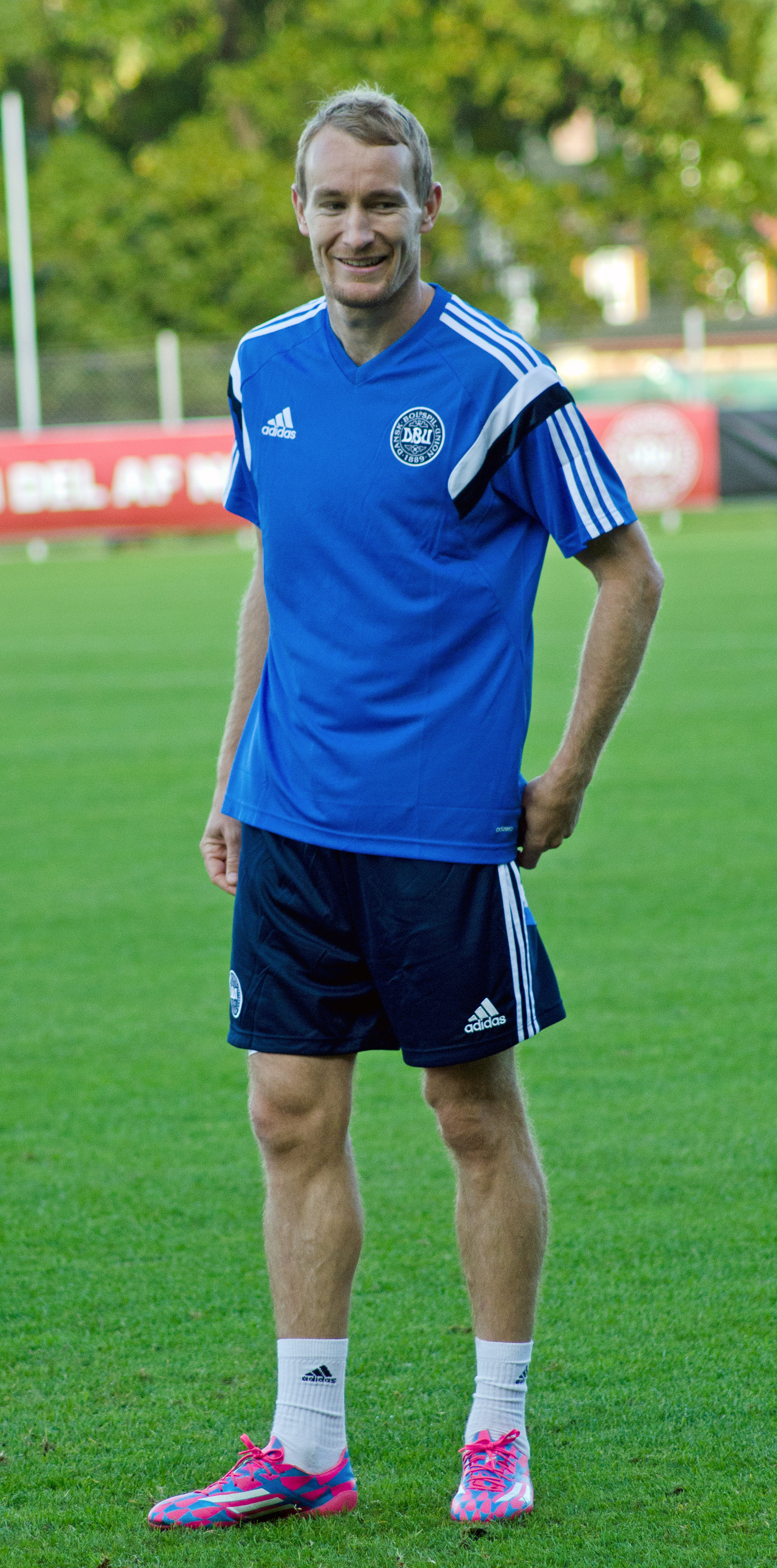 Thomas Kahlenberg in training with Denmark national football team